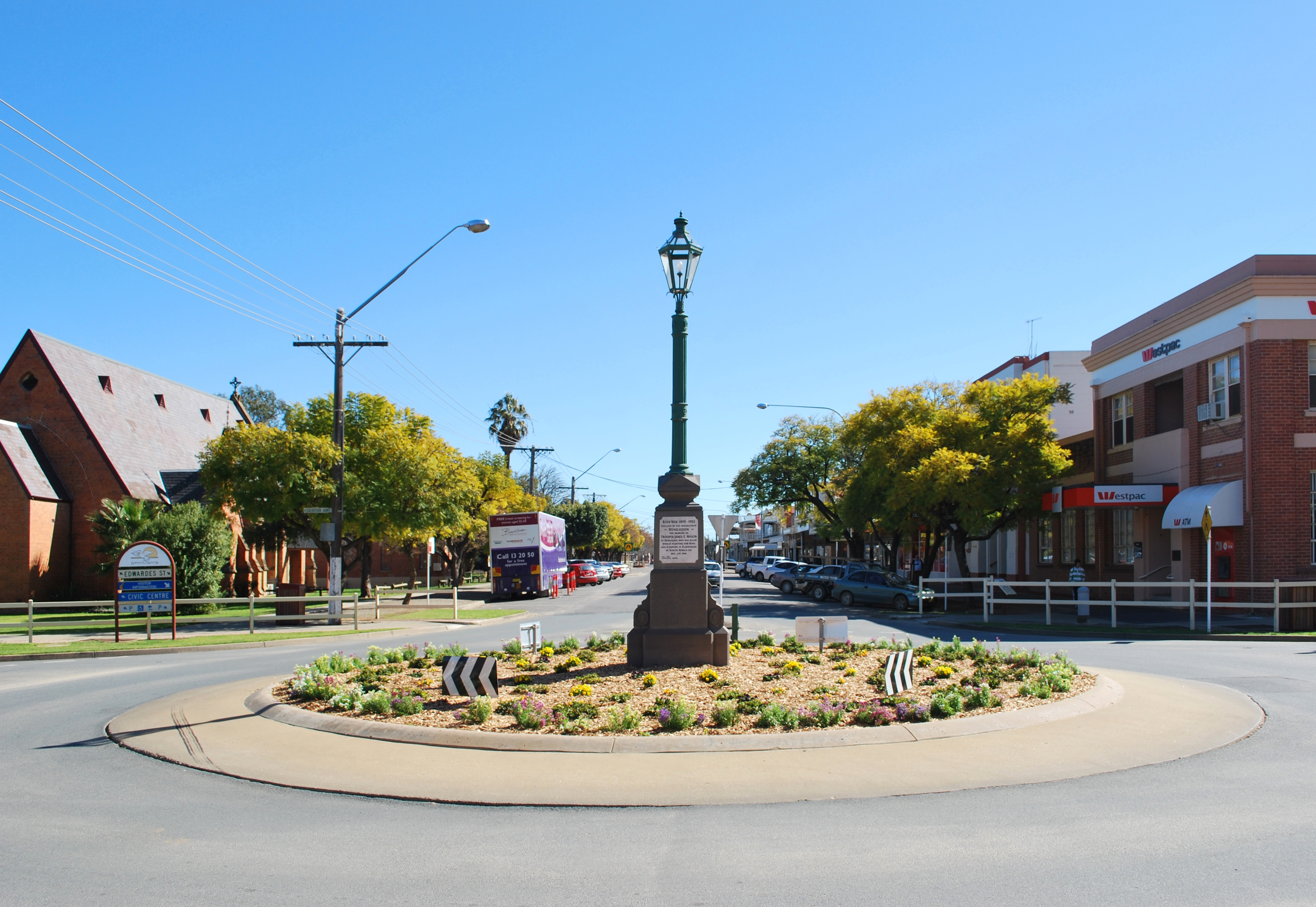 Boer War memorial lamp at Deniliquin, New South Wales